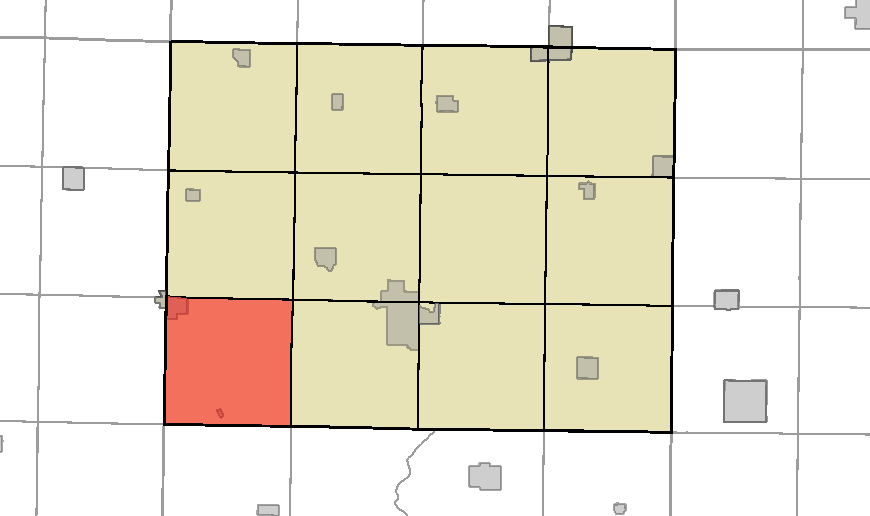 This is a map of Humboldt County, Iowa, USA which highlights the location of Weaver Township.